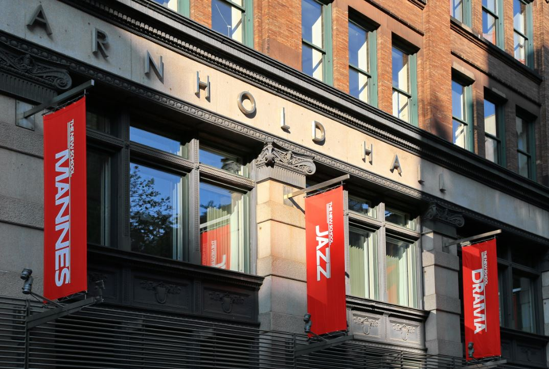 This is the most up-to-date version of Mannes' facade.